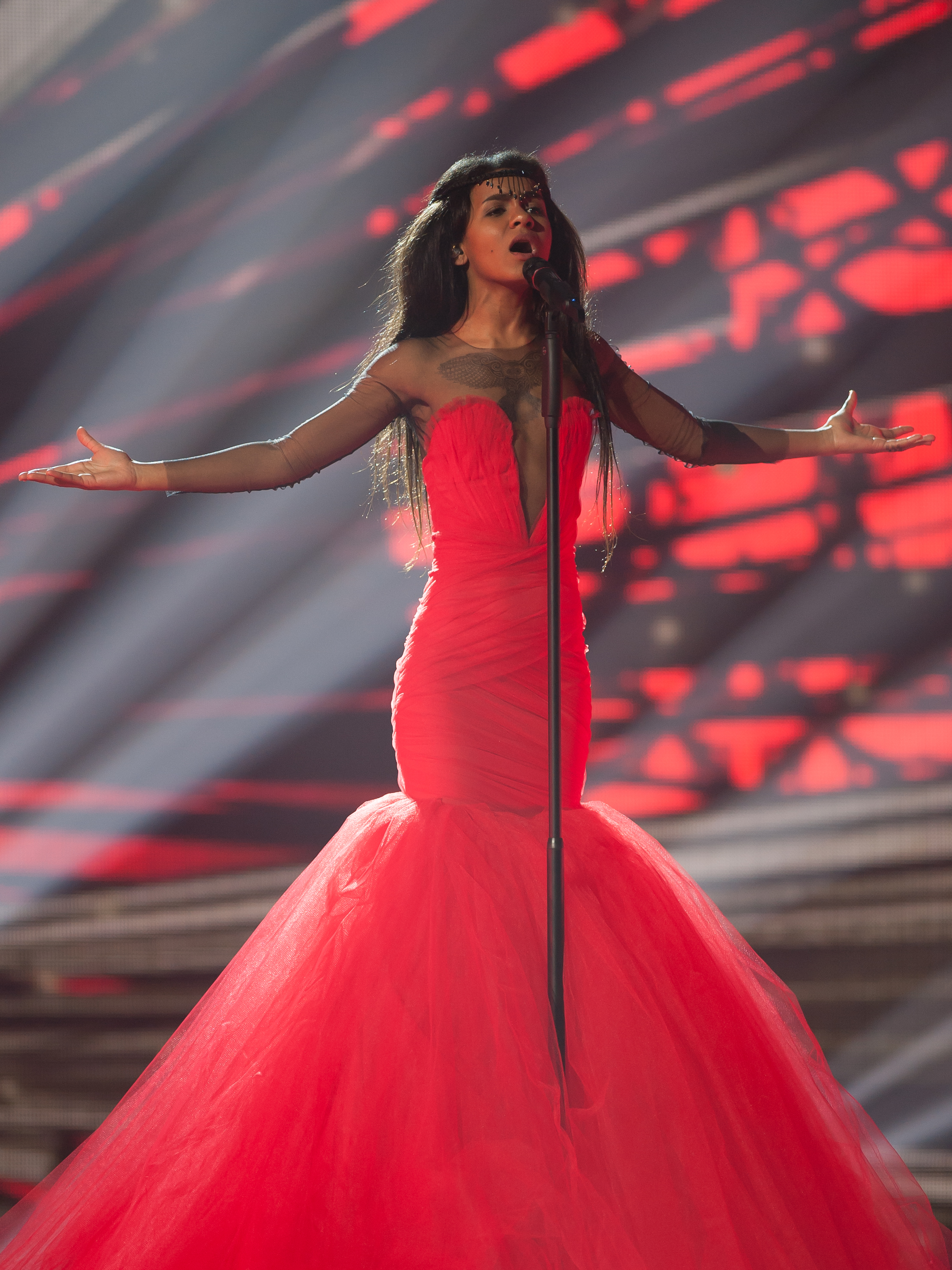 Eurovision Song Contest Vienna 2015: Aminata